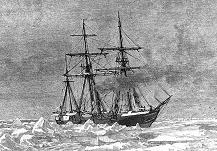 Engraving of USS Jeannette, trapped in the ice off Herald Island in the Arctic, September 1879